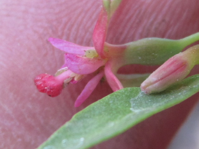 flor hembra de f. lycioides